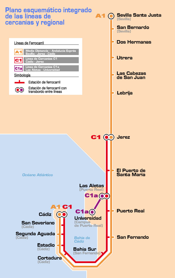 Jerez de la Frontera's outskirts and middle distance Railway Plane